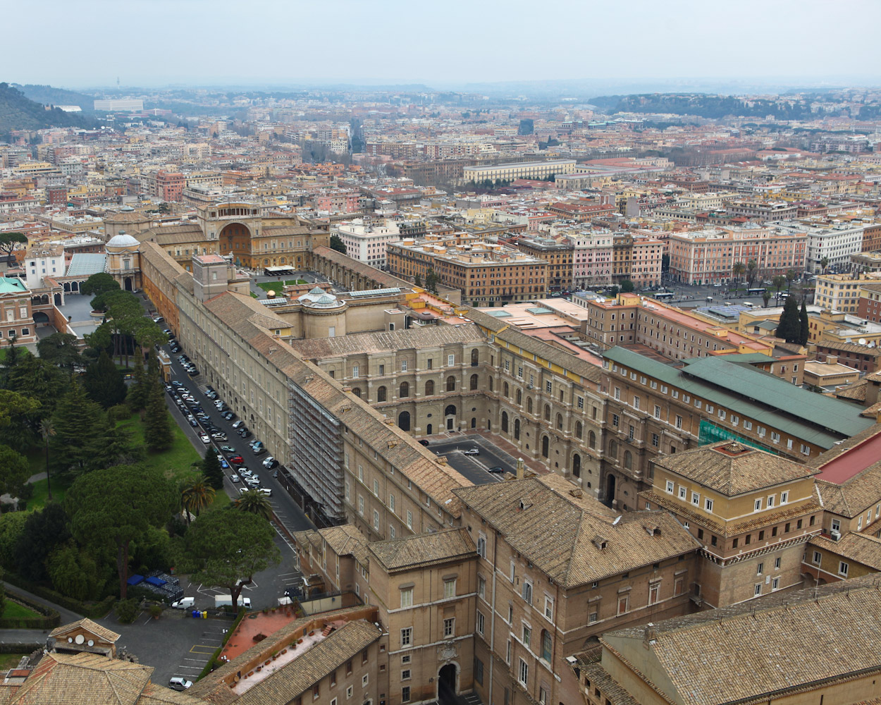 View of Cortile del Belvedere, from top of Basilica di San Pietro, Vaticano, Roma, IT